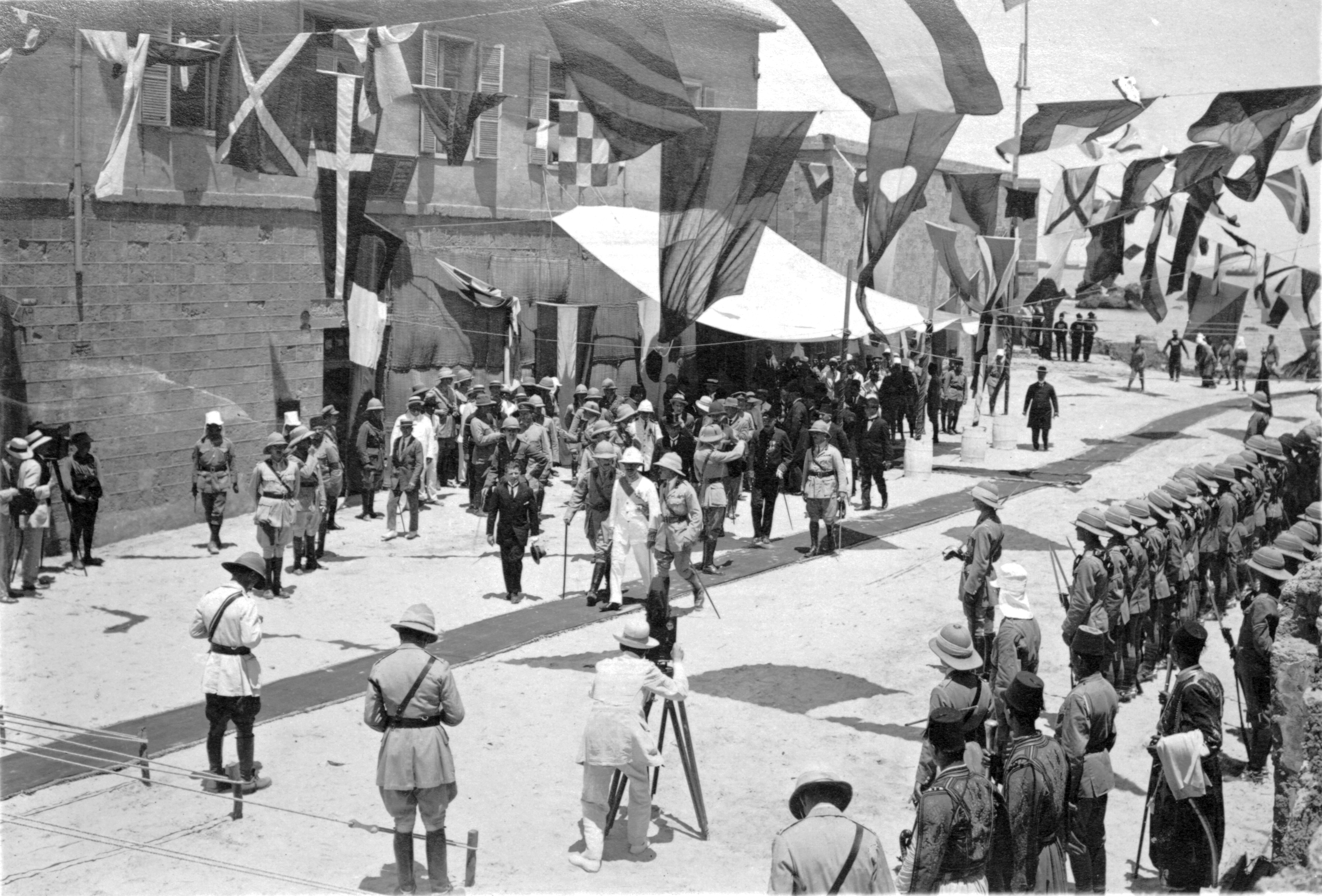 Sir H[erbert] Samuel walking into Jaffa, 1920. LC-DIG-ppmsca-13291-00158 (digital file from original, page 51, no. 158).